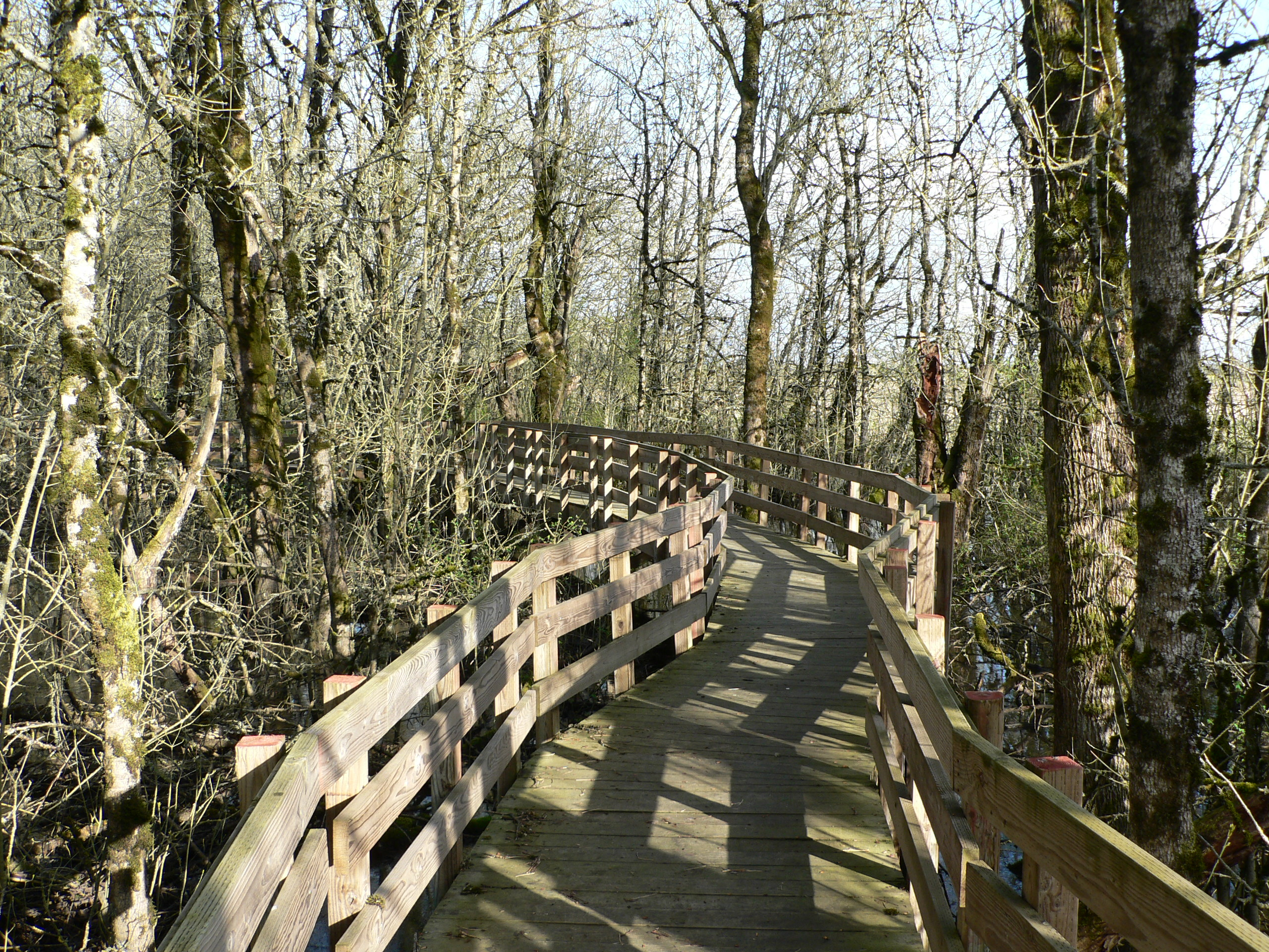 Rail Trail boardwalk, Oregon Ash forest